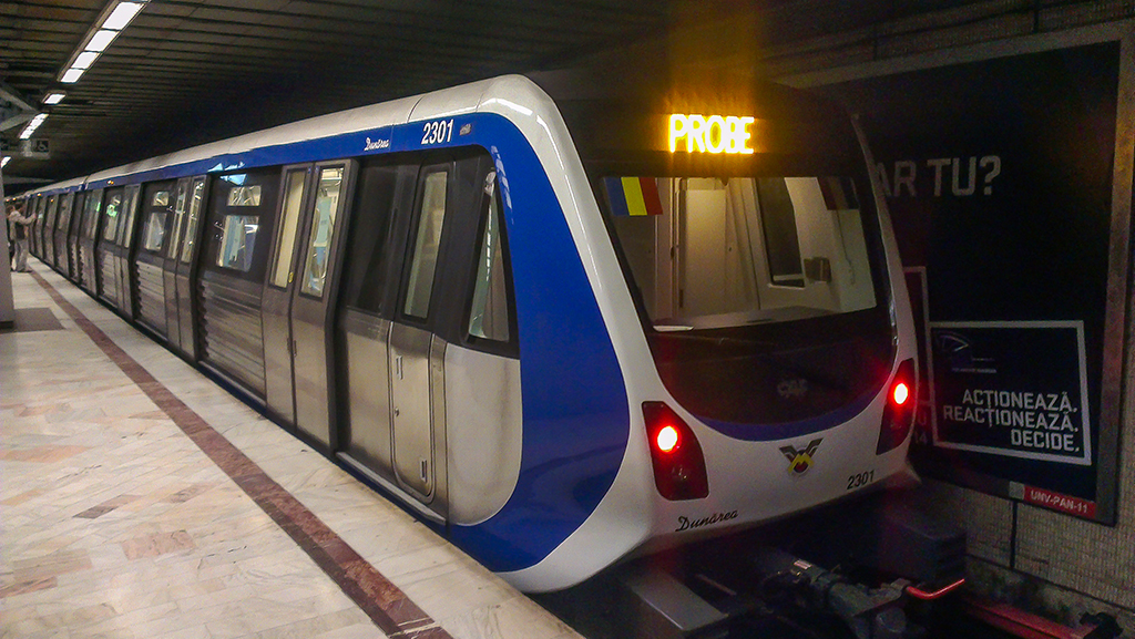 The first Construcciones y Auxiliar de Ferrocarriles train during tests